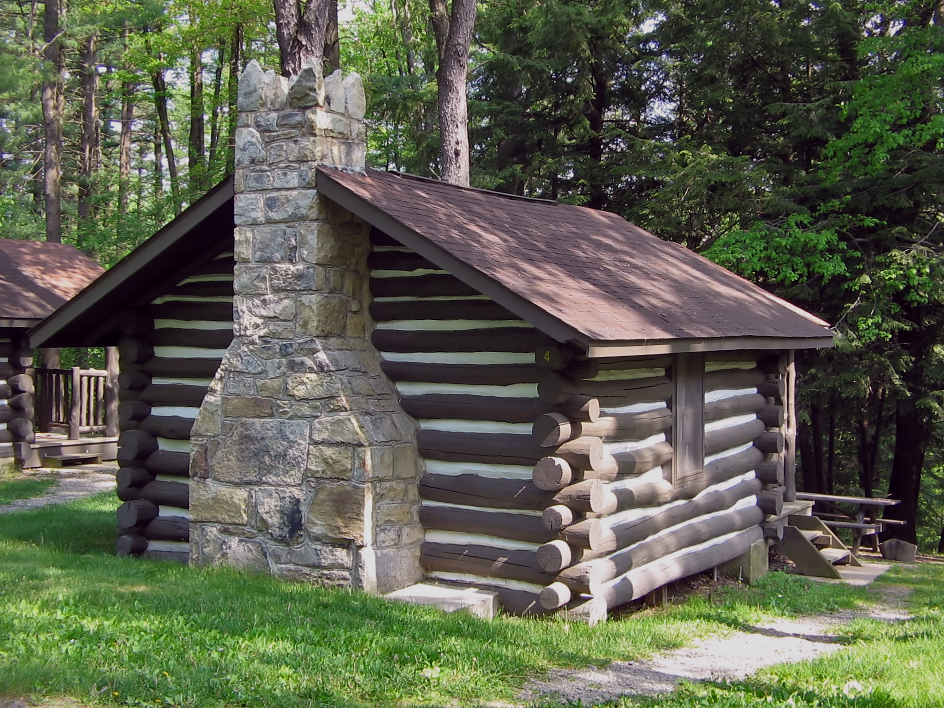 CCC built Cabin (Number 4, one room) at Black Moshannon State Park, near Phillipsburg, Rush Township, Centre County, Pennsylvania, USA.